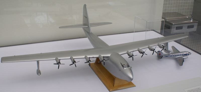 Scale models for size comparison between Hughes H-4 and DC-3. On display in the National Air and Space Museum in Washington, DC. Photo by Asiir 15:06, 13 February 2007 (UTC)